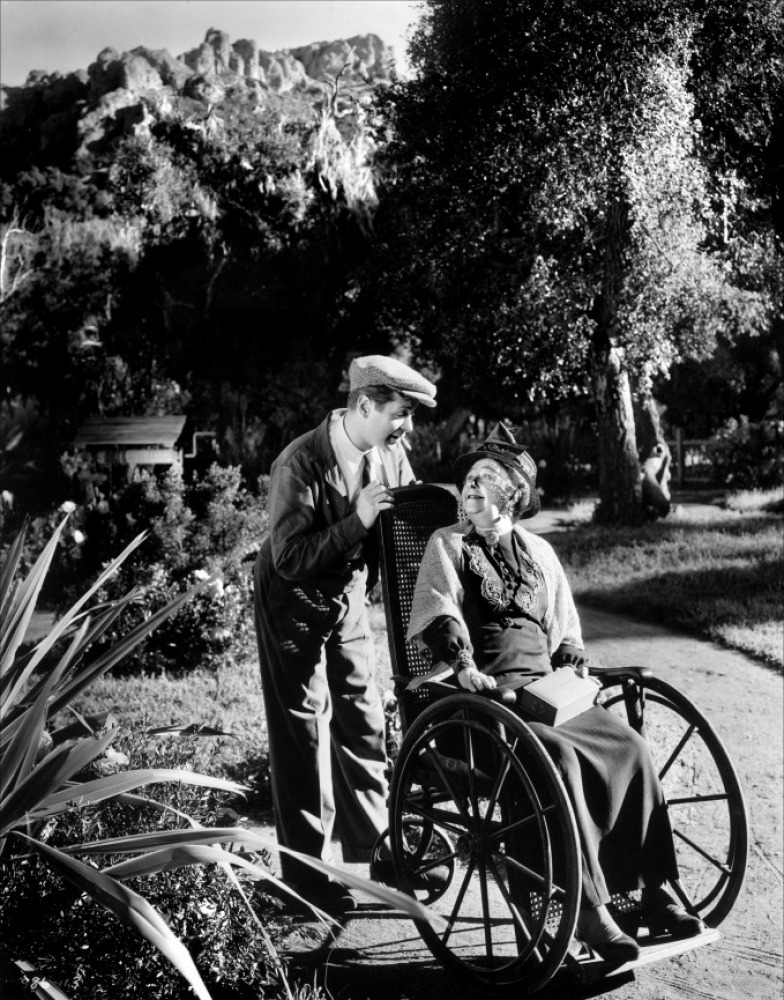 Promotional still from the 1937 film Night Must Fall, published on page 8 of National Board of Review Magazine